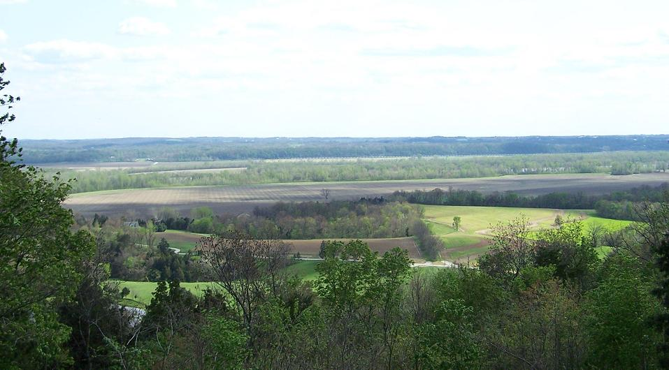 Description: View of the Augusta AVA from Monteille Winery in Augusta, Missouri. Source: Taken with a Kodak z650 on April 28th, 2007 by User:Agne27.